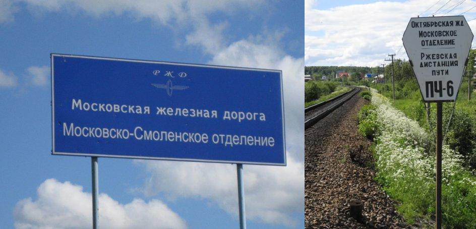 Border of Riga direction MZD and the Moscow direction Octyabrskaya Railway. Near Shakhovskaya.